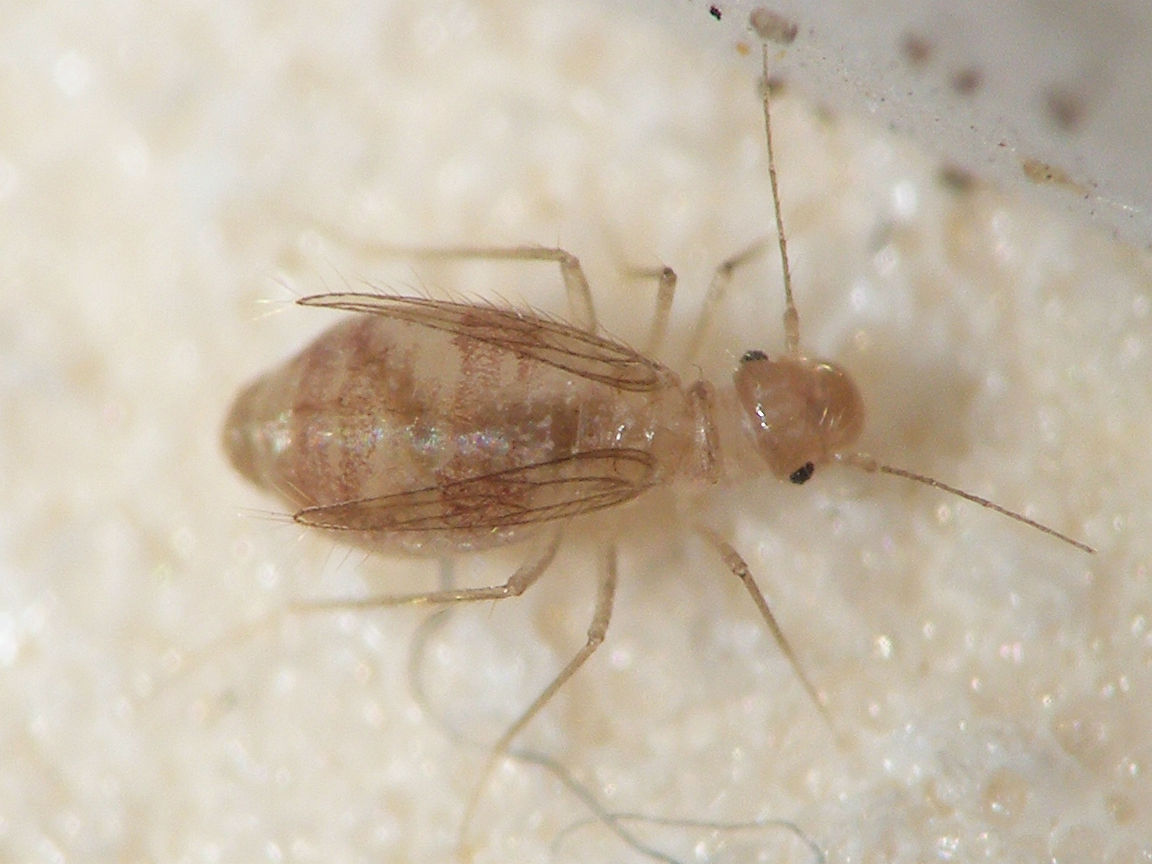 Domestic bark louse species Dorypteryx domestica Location: Hengelo, Netherlands Keywords: Psocodea, Psocoptera, Psocid, Domestic, Brachypterous.